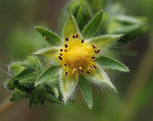 Hohes Fingerkraut Potentilla recta)